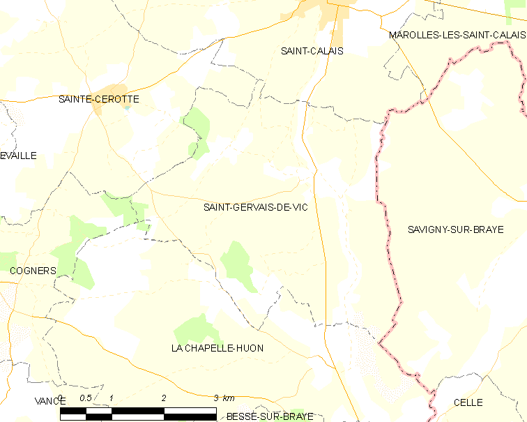 Map of French municipality